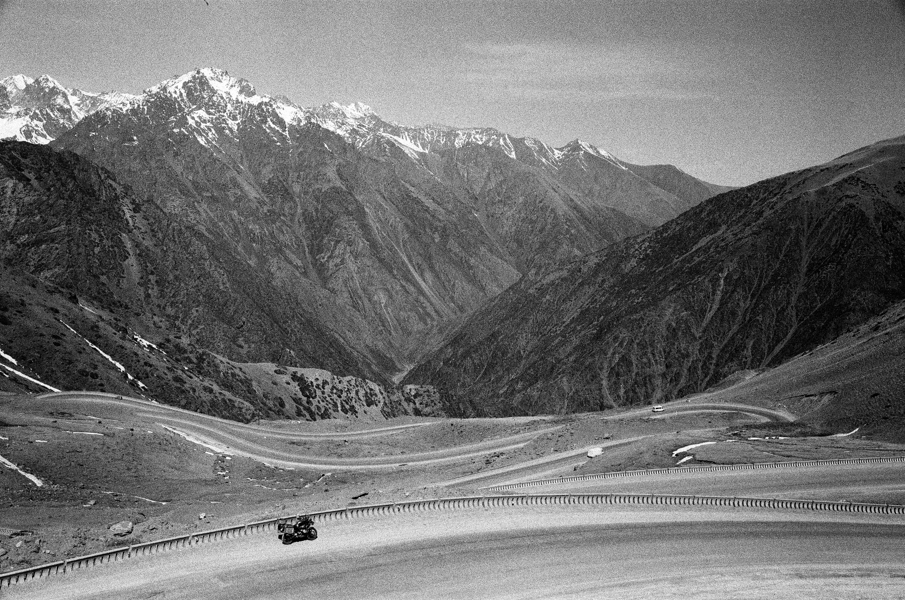 BMW R1200GS Adventure crossing the Tian Shan range on a 2016 circumnavigation